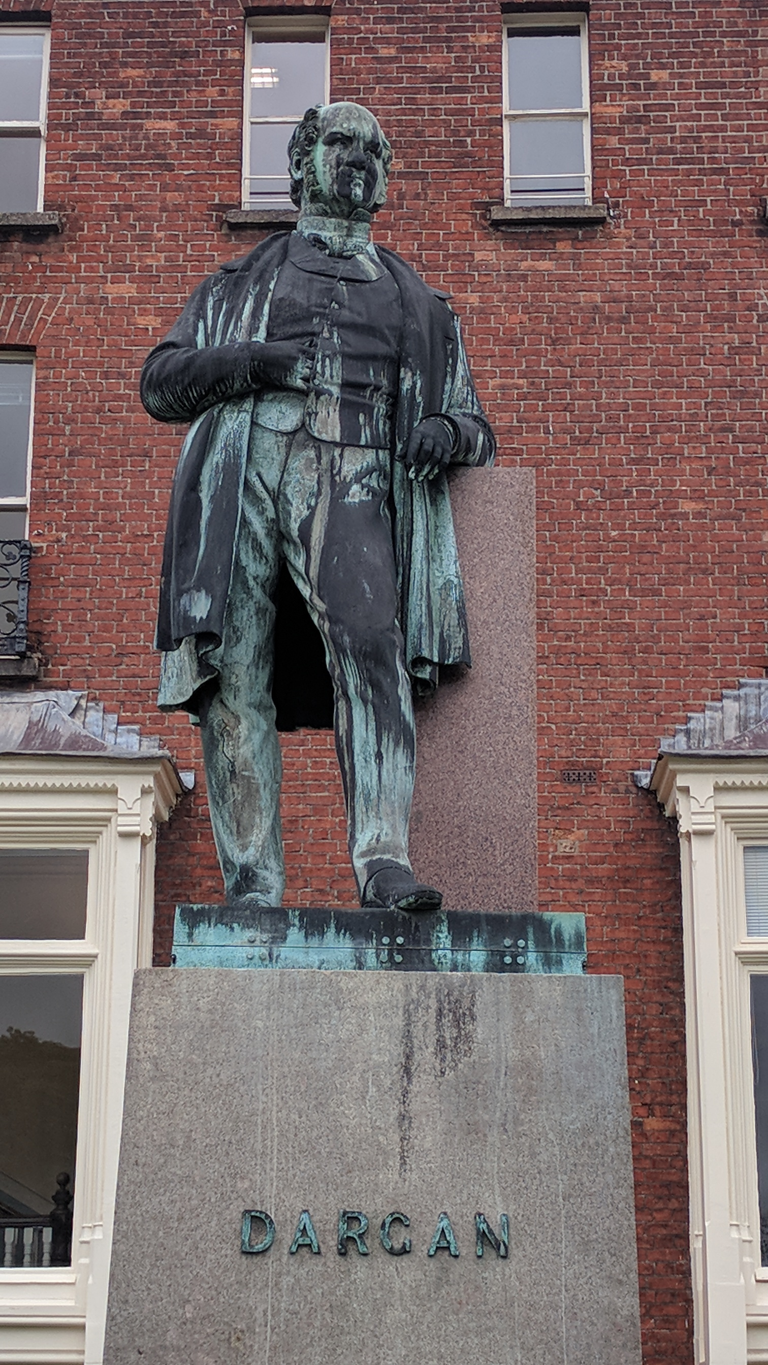 Statue of William Dargan outside the National Gallery, Dublin, Ireland.